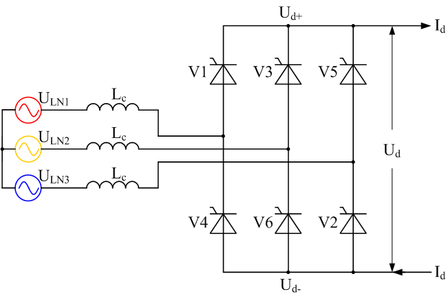 Schematic arrangement of a six-pulse bridge circuit using thyristors as the switching elements, with commutating inductance present